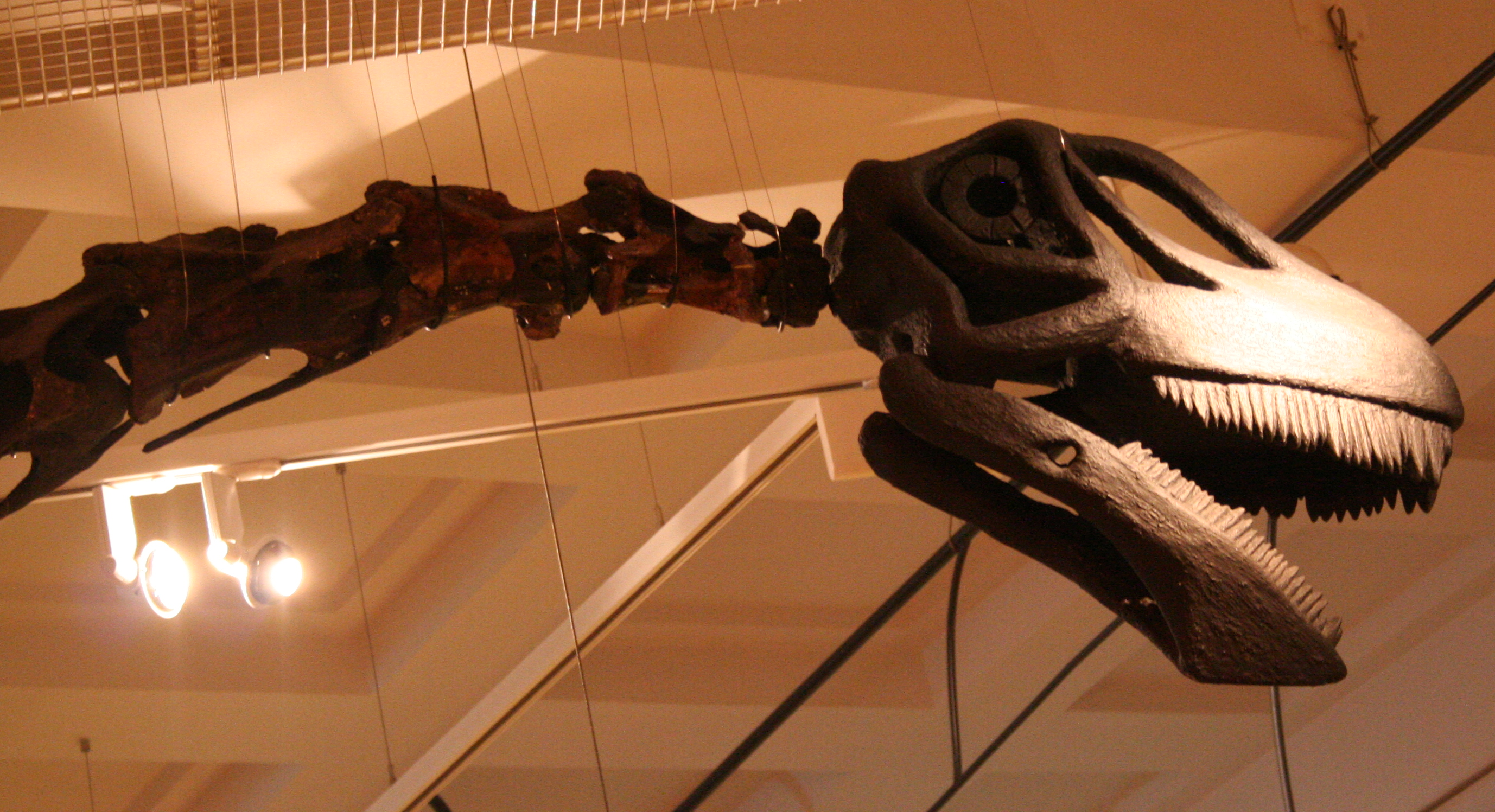 Cetiosaurus. New Walk Museum, Leicester. Tuesday, 17 July, 2012